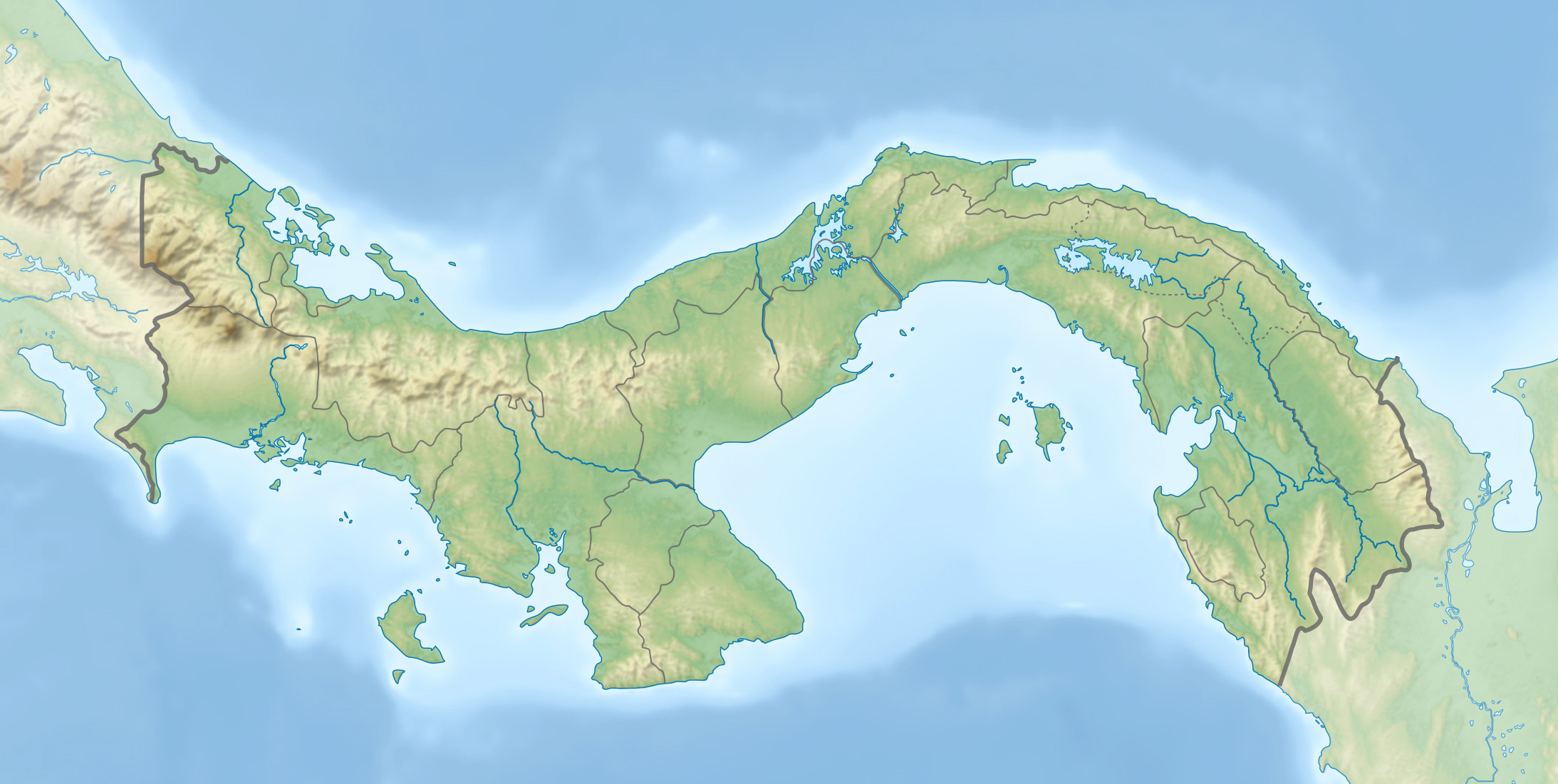 Physical location map of Panama Equirectangular projection. Geographic limits of the map: N: 10.28° N S: 6.79° N W: 83.56° W O: 76.64° W